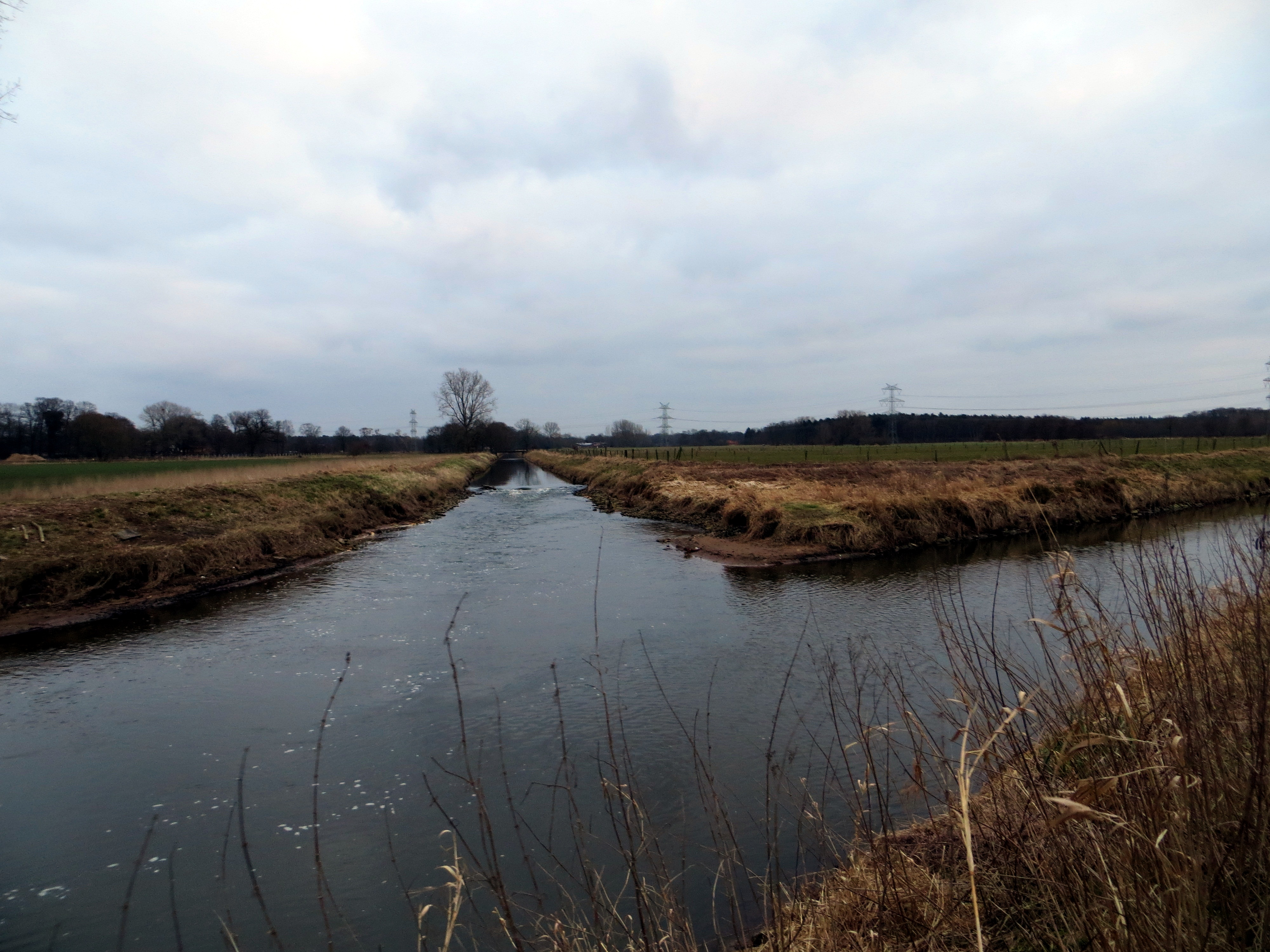 The place where the river Dalke flows into the Ems.